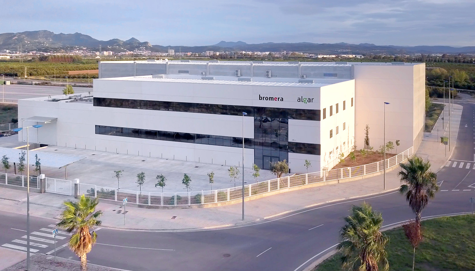 Bromera Editorial's Main Building